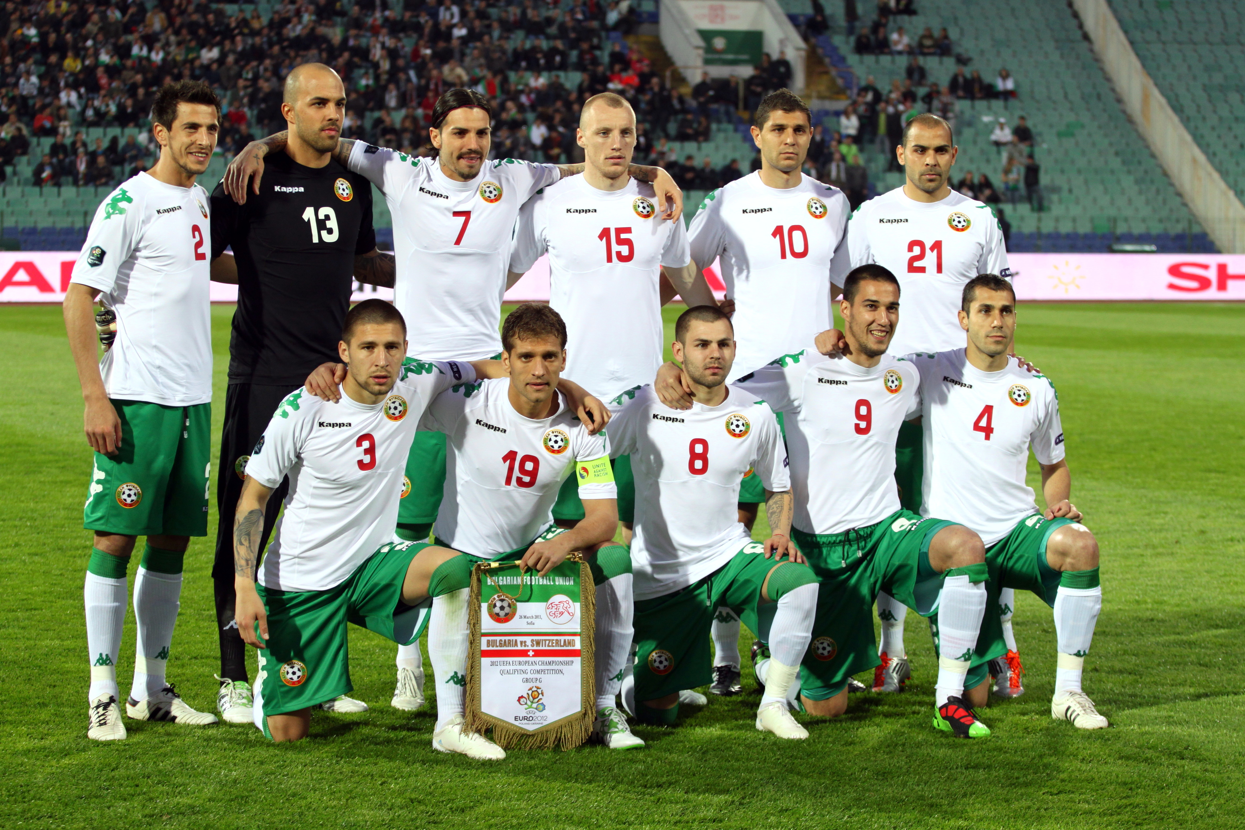 Bulgarian national football team. Photo taken before a qualification match for Euro 2012 with Switzerland national team, March 26, 2011, Vasil Levski National Stadium, Sofia, Bulgaria. From left to right: Back Row: Stanislav Manolev, Nikolay Mihaylov, Blagoy Georgiev, Ivan Ivanov, Dimitar Makriev, Kostadin Stoyanov. Front Row: Ivan Bandalovski, Stiliyan Petrov, Spas Delev, Ivelin Popov, Zanev Petar.